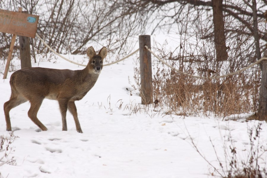 gorani (Korean water deer) (Hydropotes inermis)